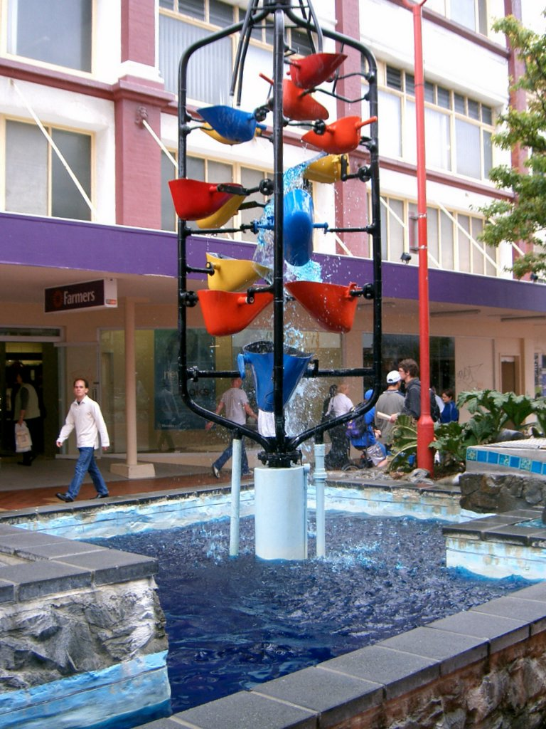 Photo by Brenda Wallace.